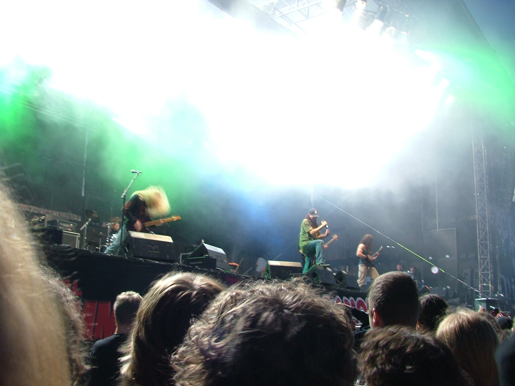 USAmerican progressive metal band Nevermore at the Summer Breeze in Dinkelsbühl